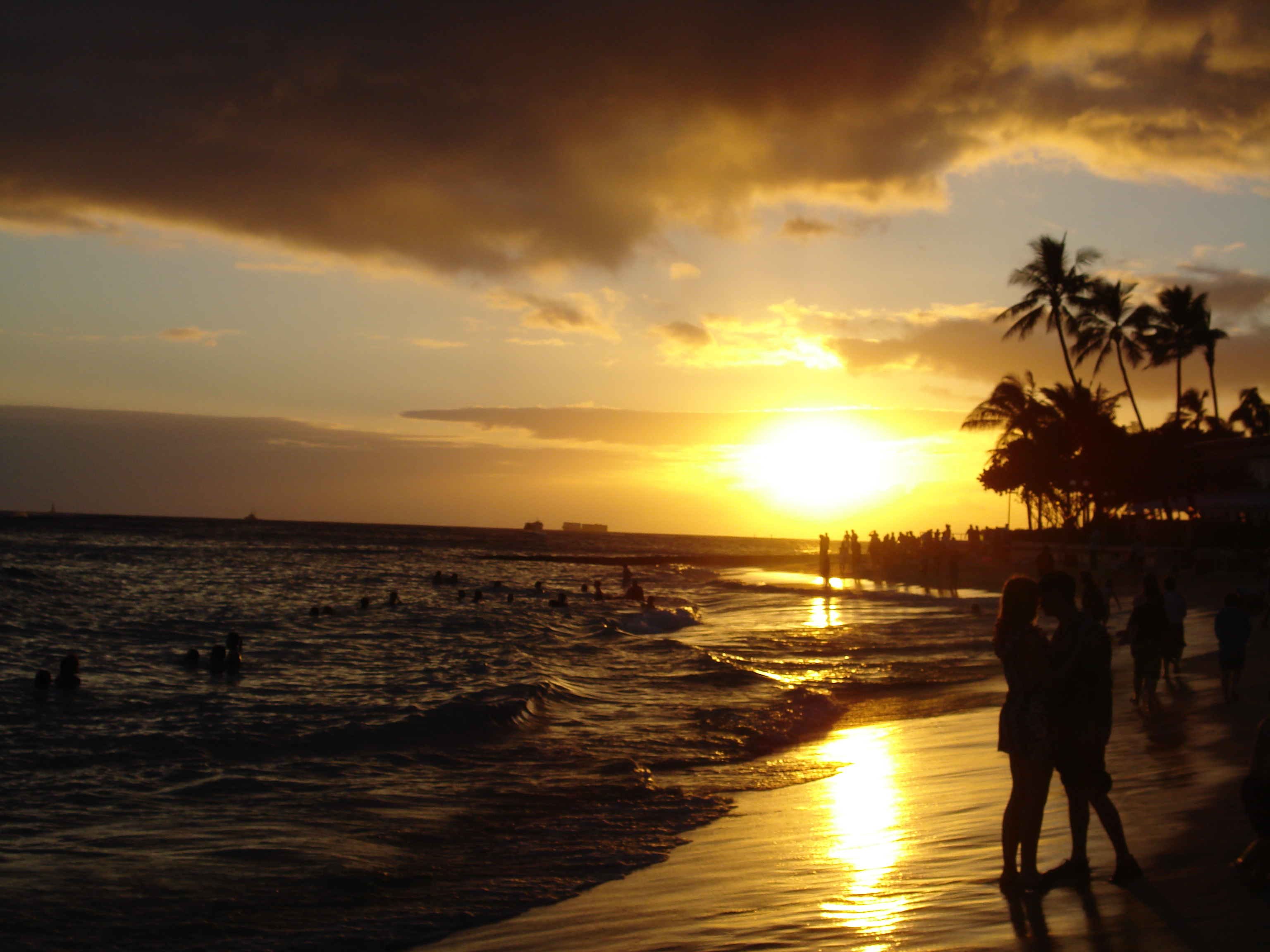 Waikiki Beach at sunset, looking east from the Royal Hawaiian Hotel